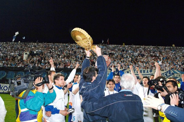 Dragan Skocic - Croatian Cup Winner